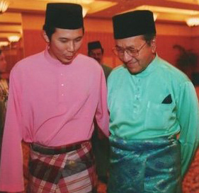 Photographer Kid Chan with former Prime Minister of Malaysia, Mahathir Mohamad.